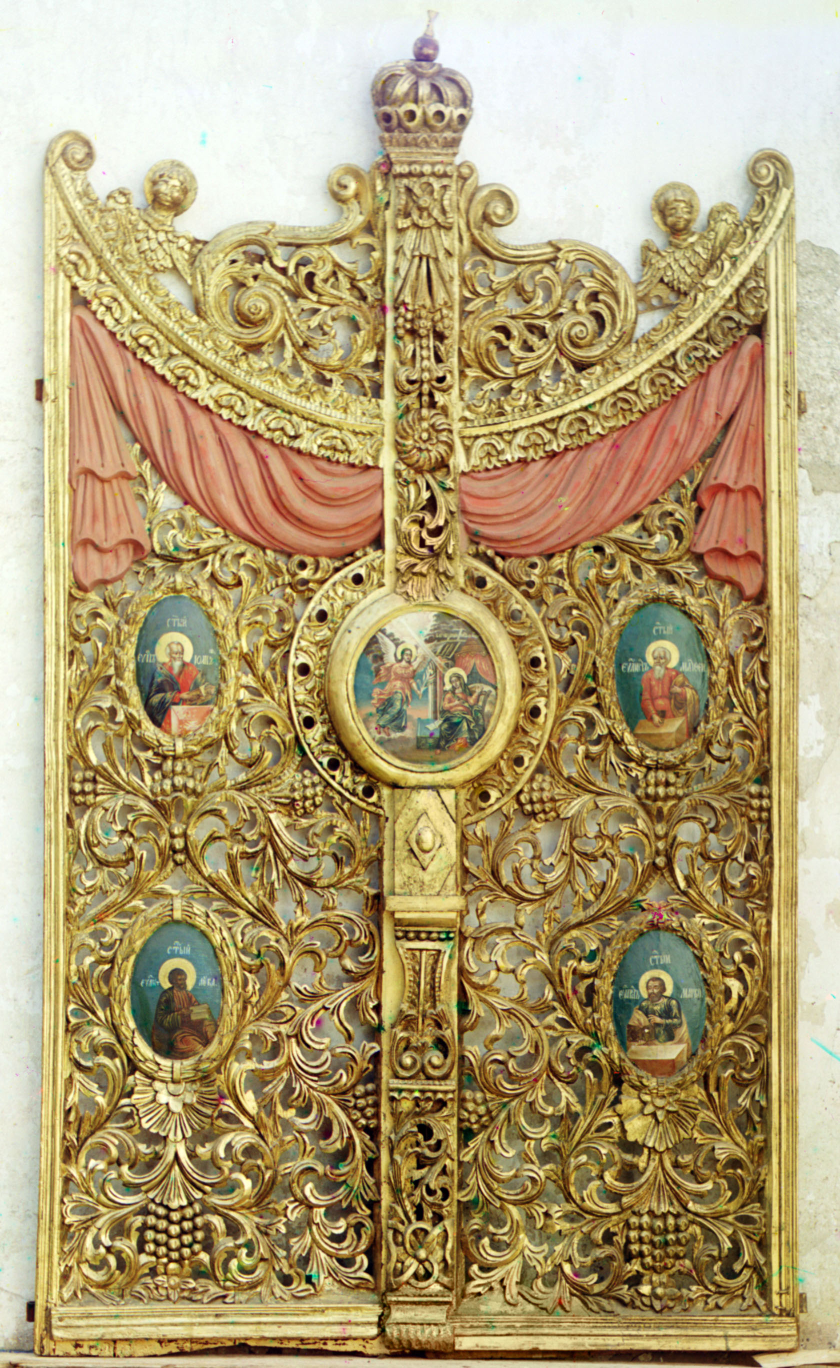 Holy Gates from the first half of the eighteenth century. Museum inventory number 4766. In the Rostov museum. Rostov Velikii